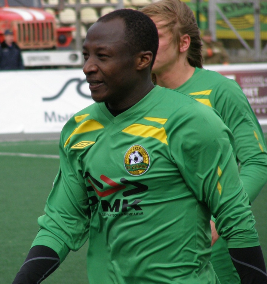 Haminu Draman in action for FC Kuban